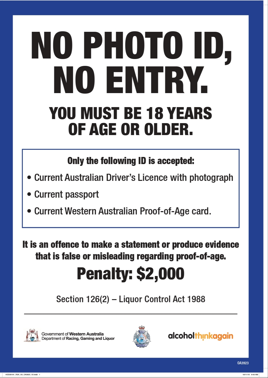 A sign explaining acceptable photographic ID